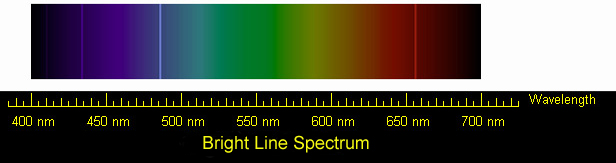 photograph of bright line spectrum of hydrogen